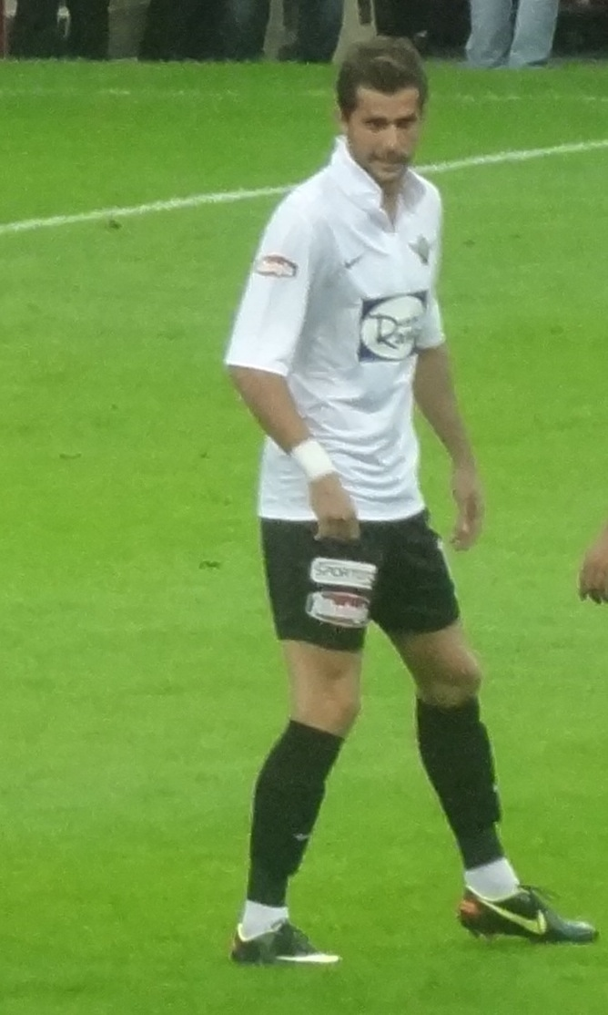 Uğur for GS